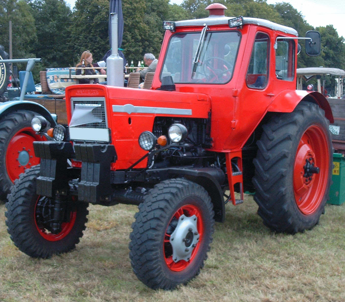 Belarus MTZ-52 from the Minsk Tractor Works (4x4 version of the MTZ-50)